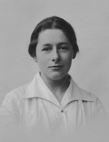 D S Russell